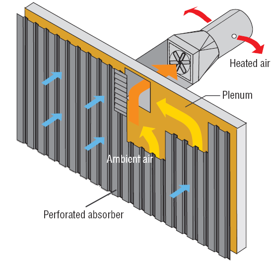 Diagram showing operation of Transpired Air Collector